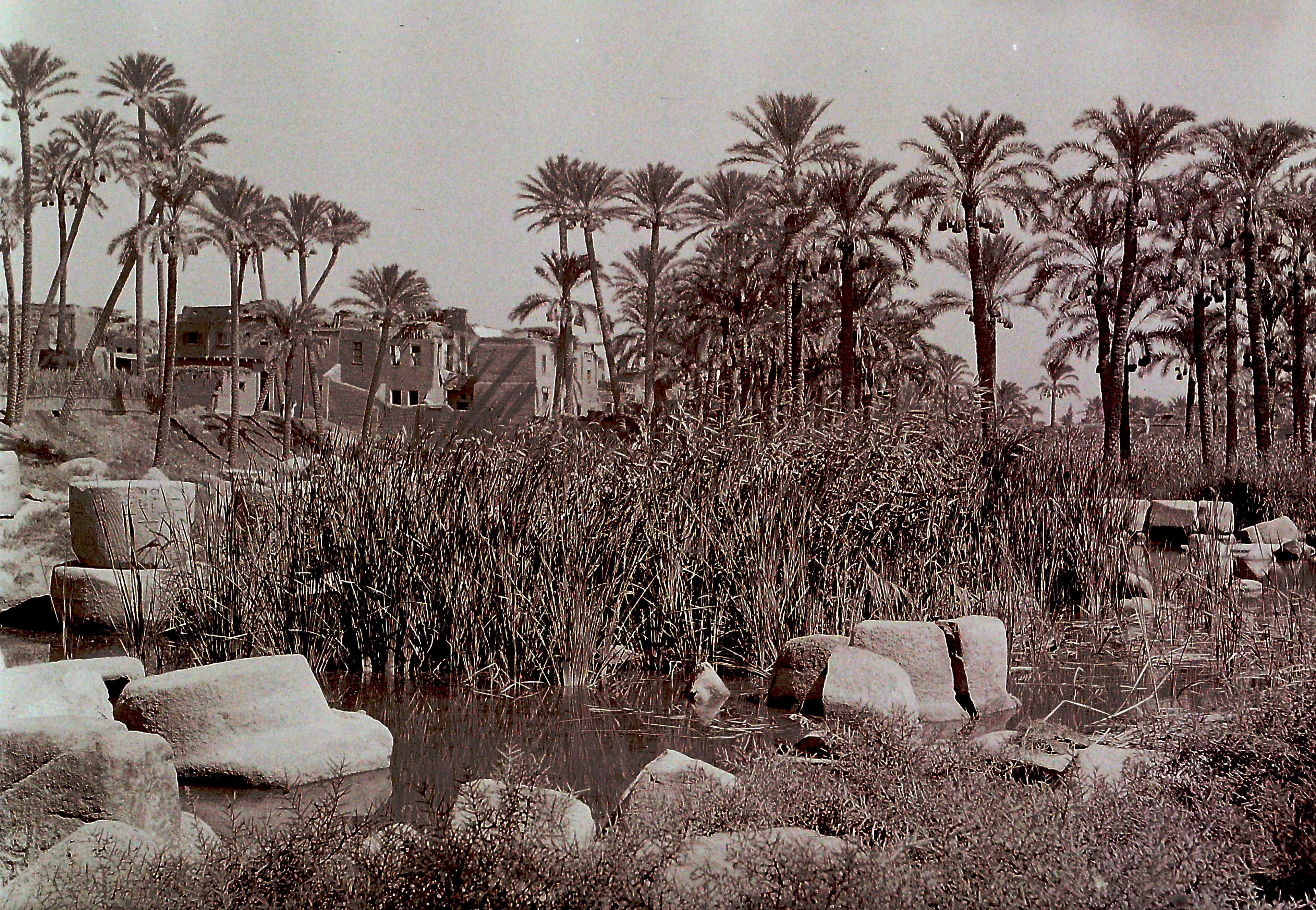 Histroical photos